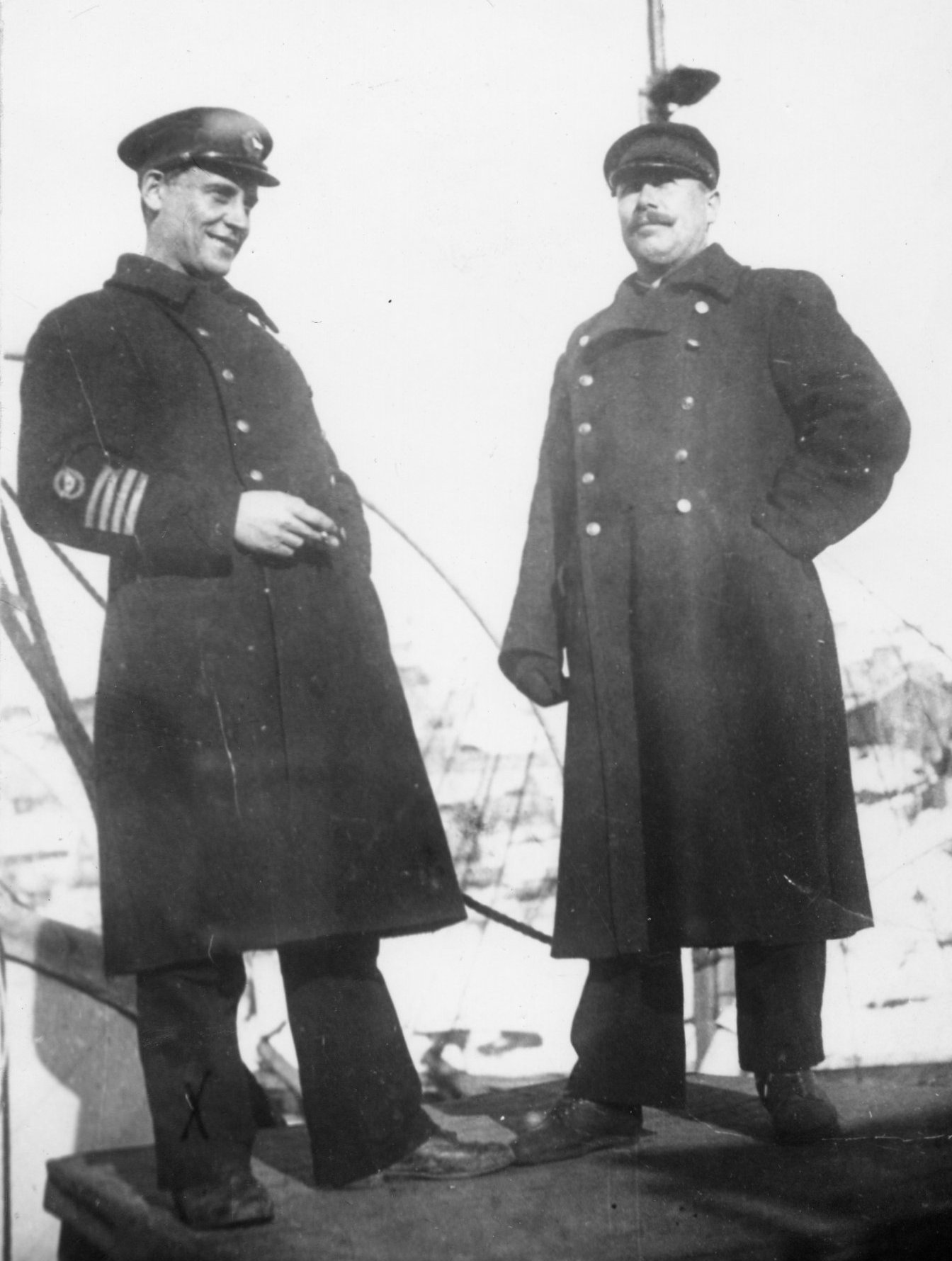 Pavel Kiselev (1914-1996) in Petropavlovsk-Kamchatsky, 1930s. An image from family archive, owned by D.Kiselev